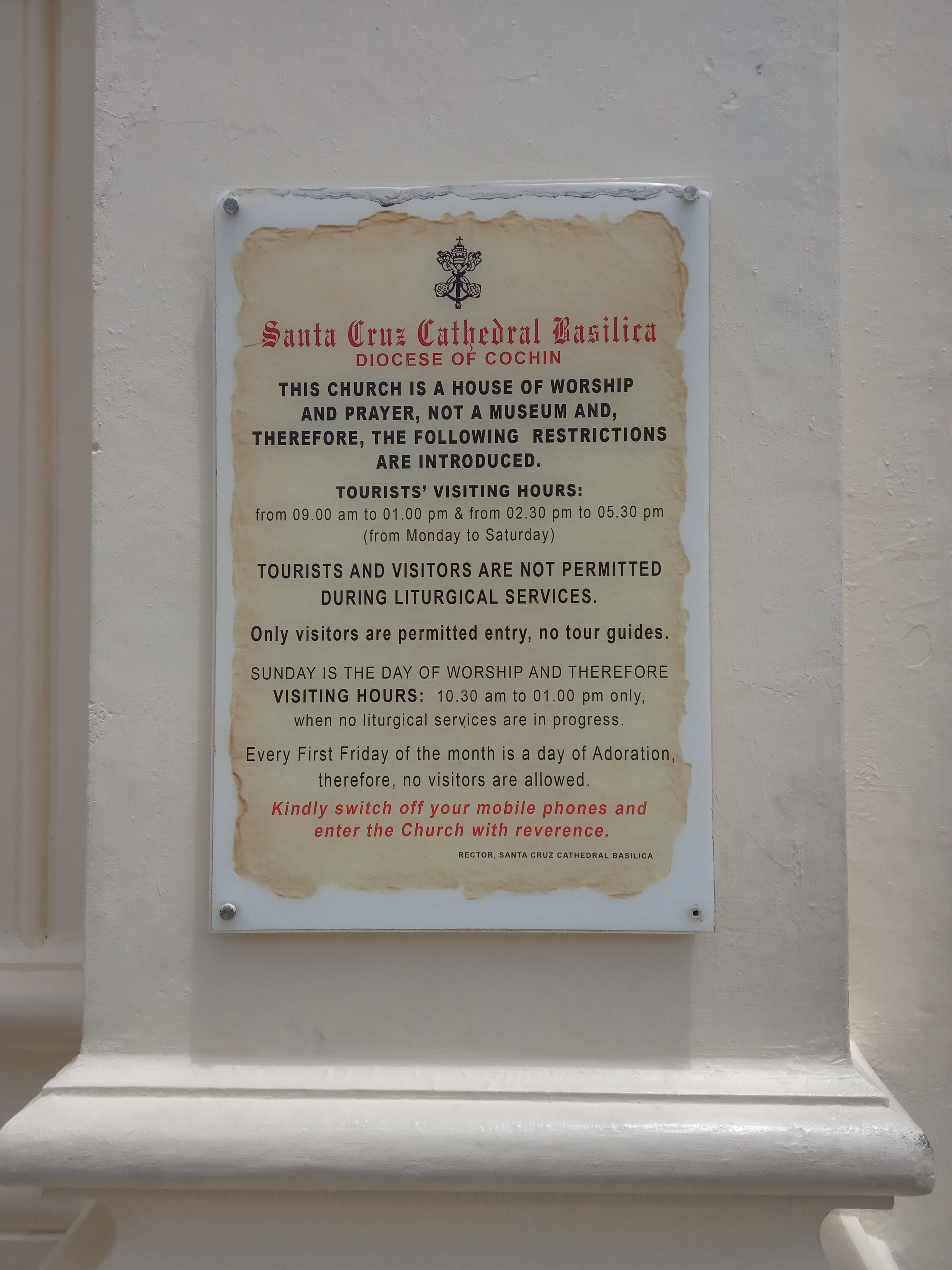 details of church in the premises